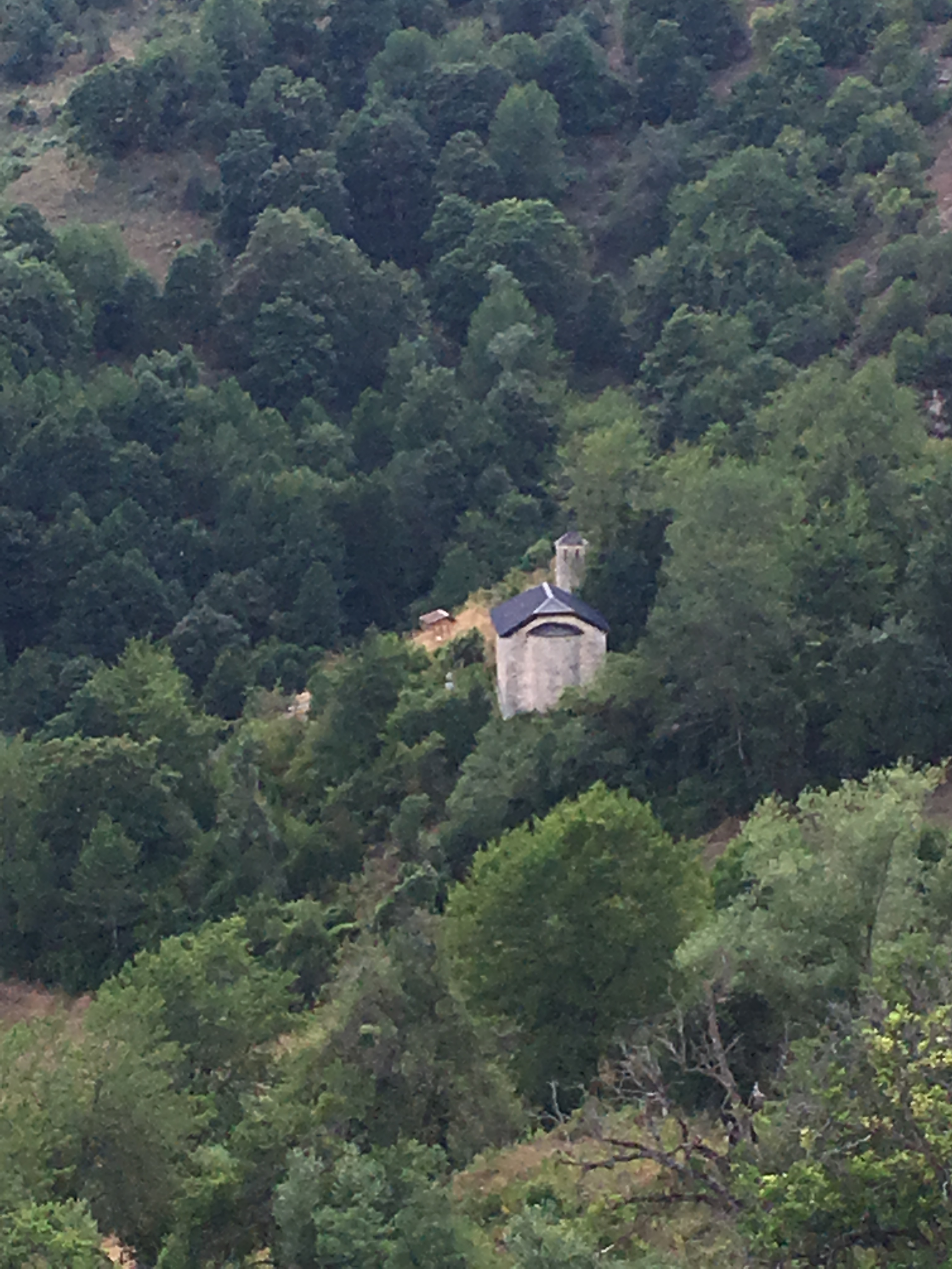 Црквата „Вознесение Христово“ во селото Нистрово